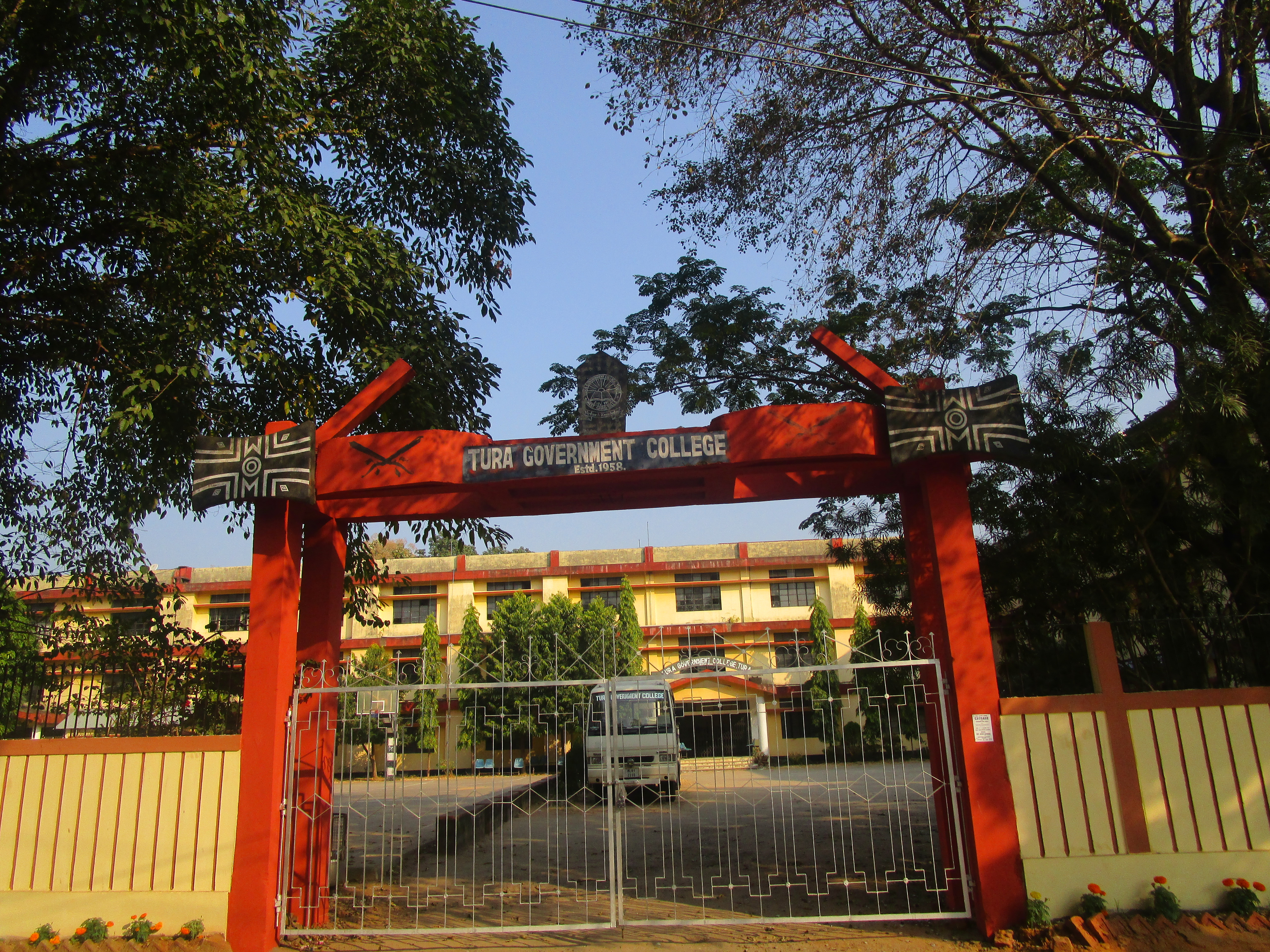 The main gate of Tura Government College at Tura, Meghalaya.